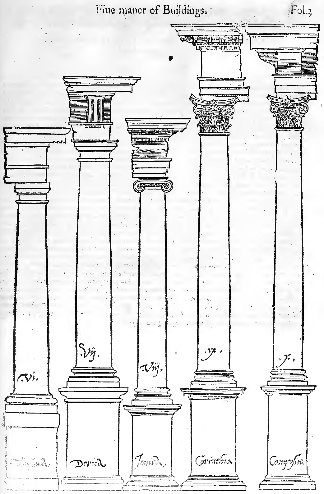 Sebastiano Serlio's canon of the 5 orders, as published by Robert Peake (London, 1611).